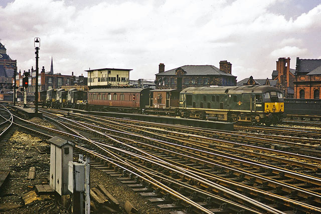 Manchester Exchange station - engineering train Manchester Victoria station used to be connected to the erstwhile Exchange station by the longest platform in the country. At the far west end, D5054 brings an engineering train from the west through the station. Definitely 1968, probably around Easter.